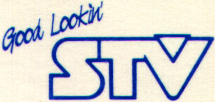 STV logo